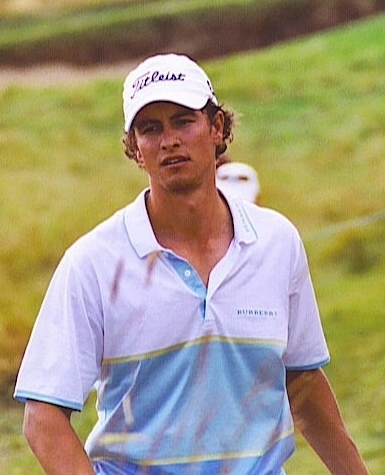 Adam Scott, Australia, Professional Golfer